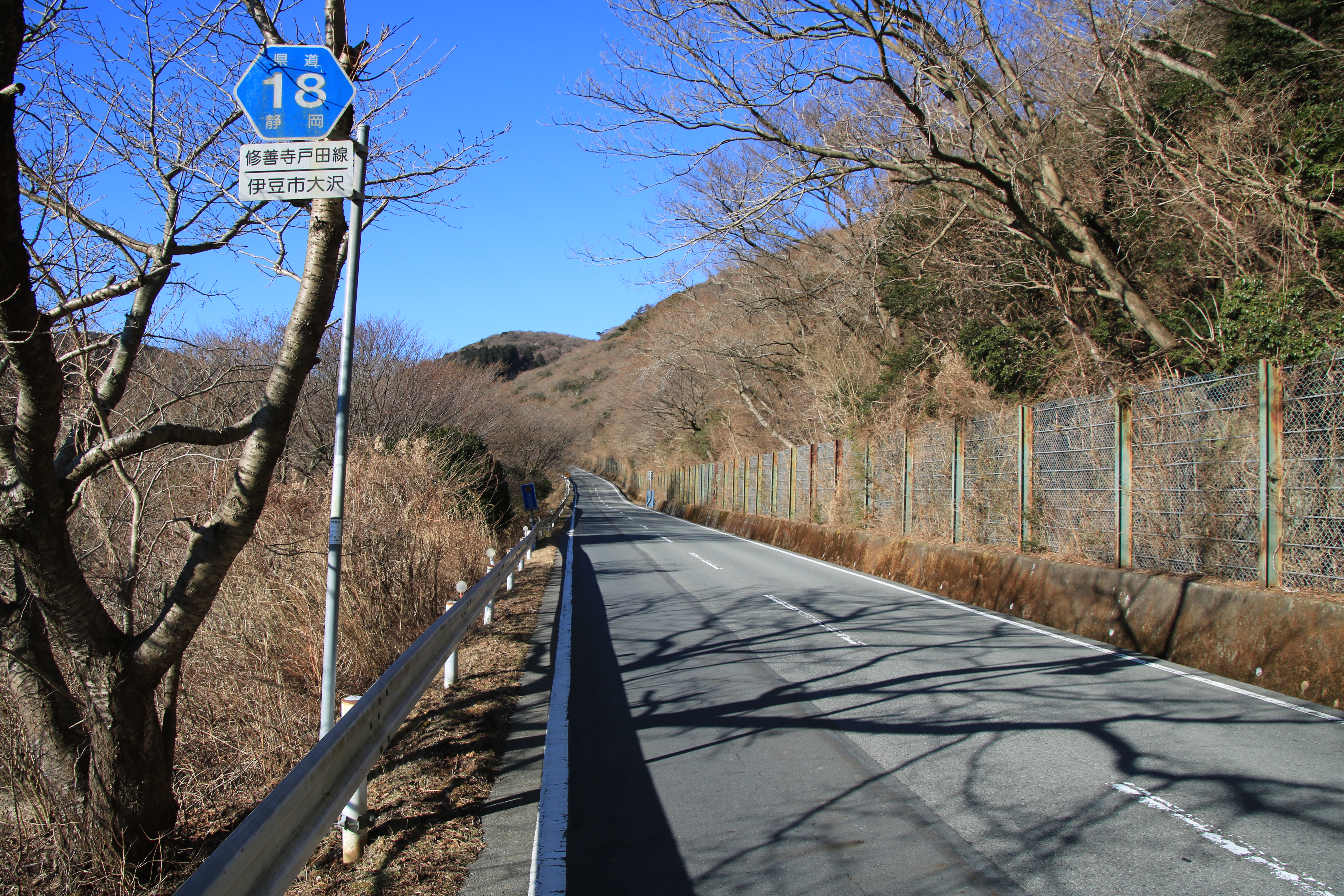 Shizuoka Prefectural Road Route 18 in Osawa, Izu, Shizuoka prefecture, Japan.